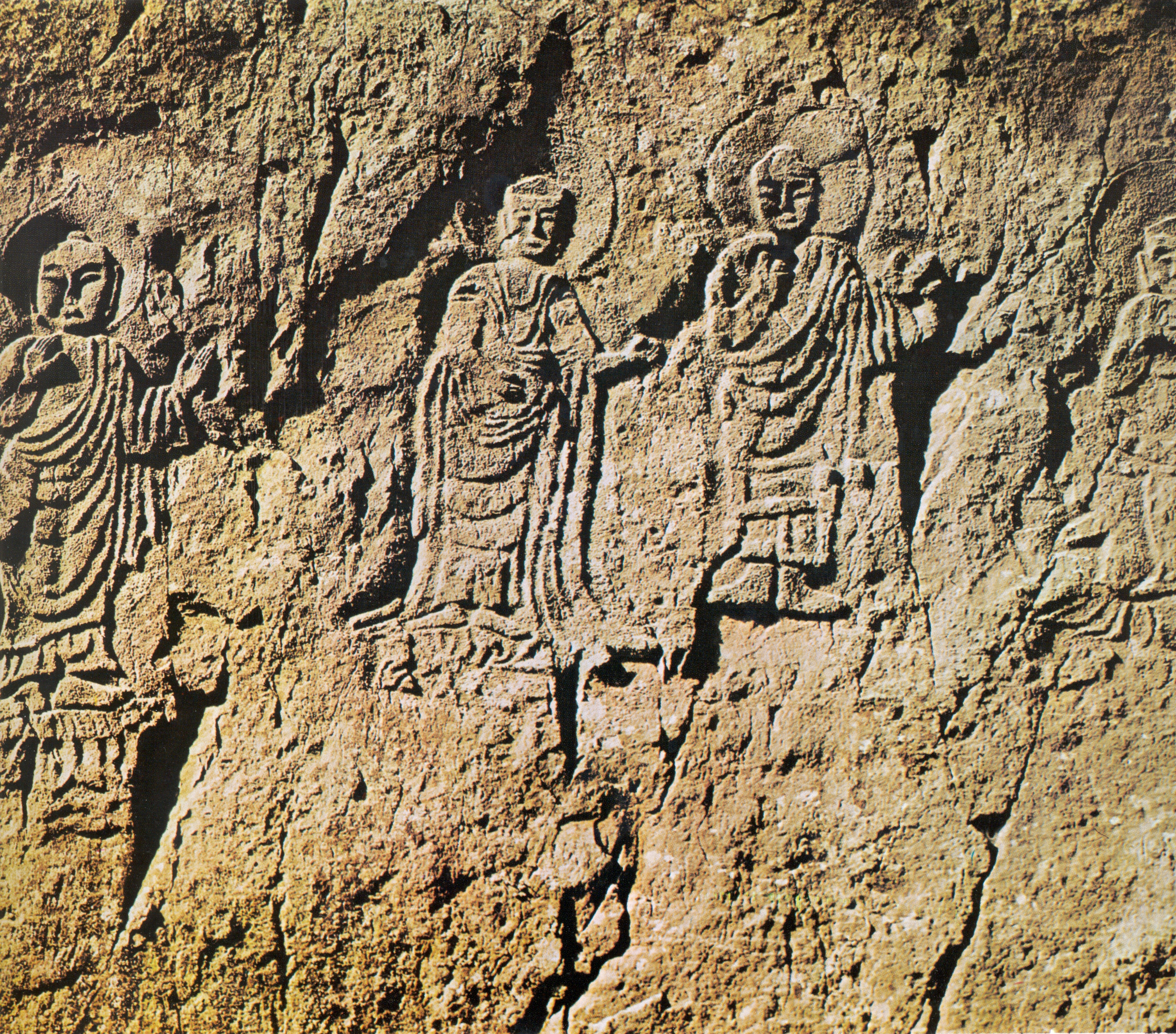 Rock-carved Buddha statues at Sinseonsa temple in Danseoksan mountain, Gyeongju